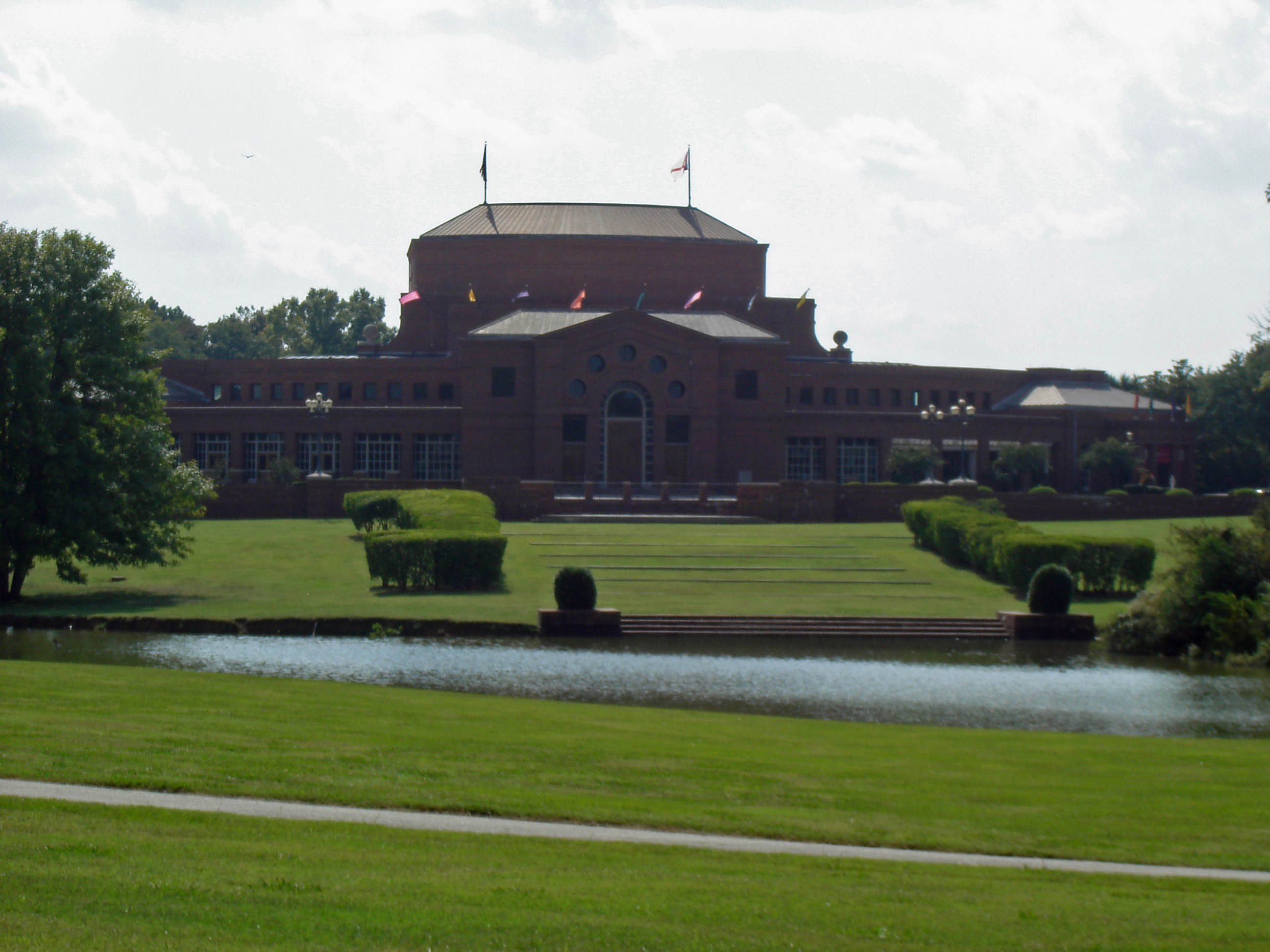 Carolyn_Blount_Theatre in Montgomery, Alabama, home of the Alabama Shakespeare Festival